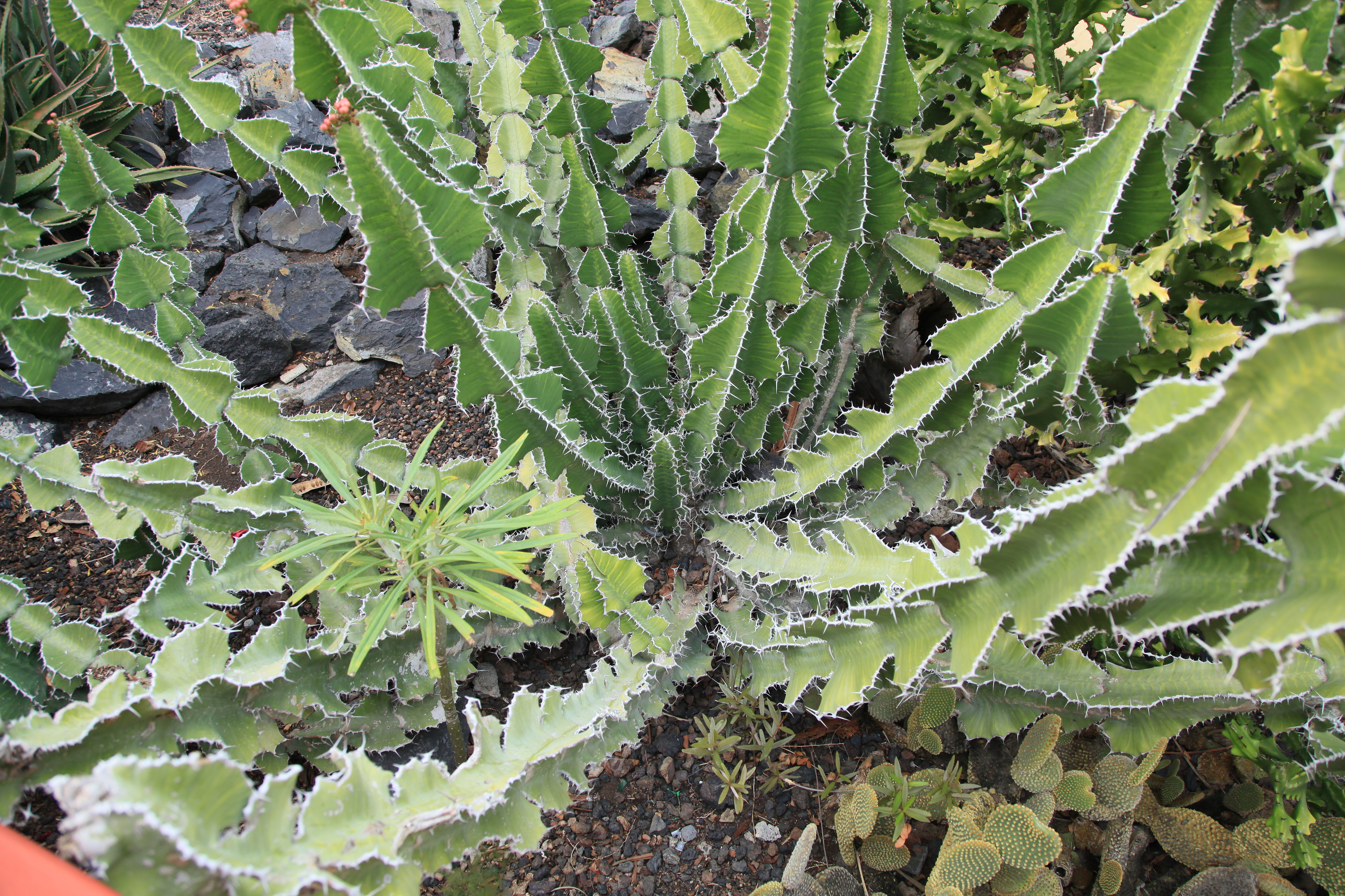 Euphorbia breviarticulata grown at Calle Plaza in San Andrés, San Andrés y Sauces, La Palma, Canary Island, Spain